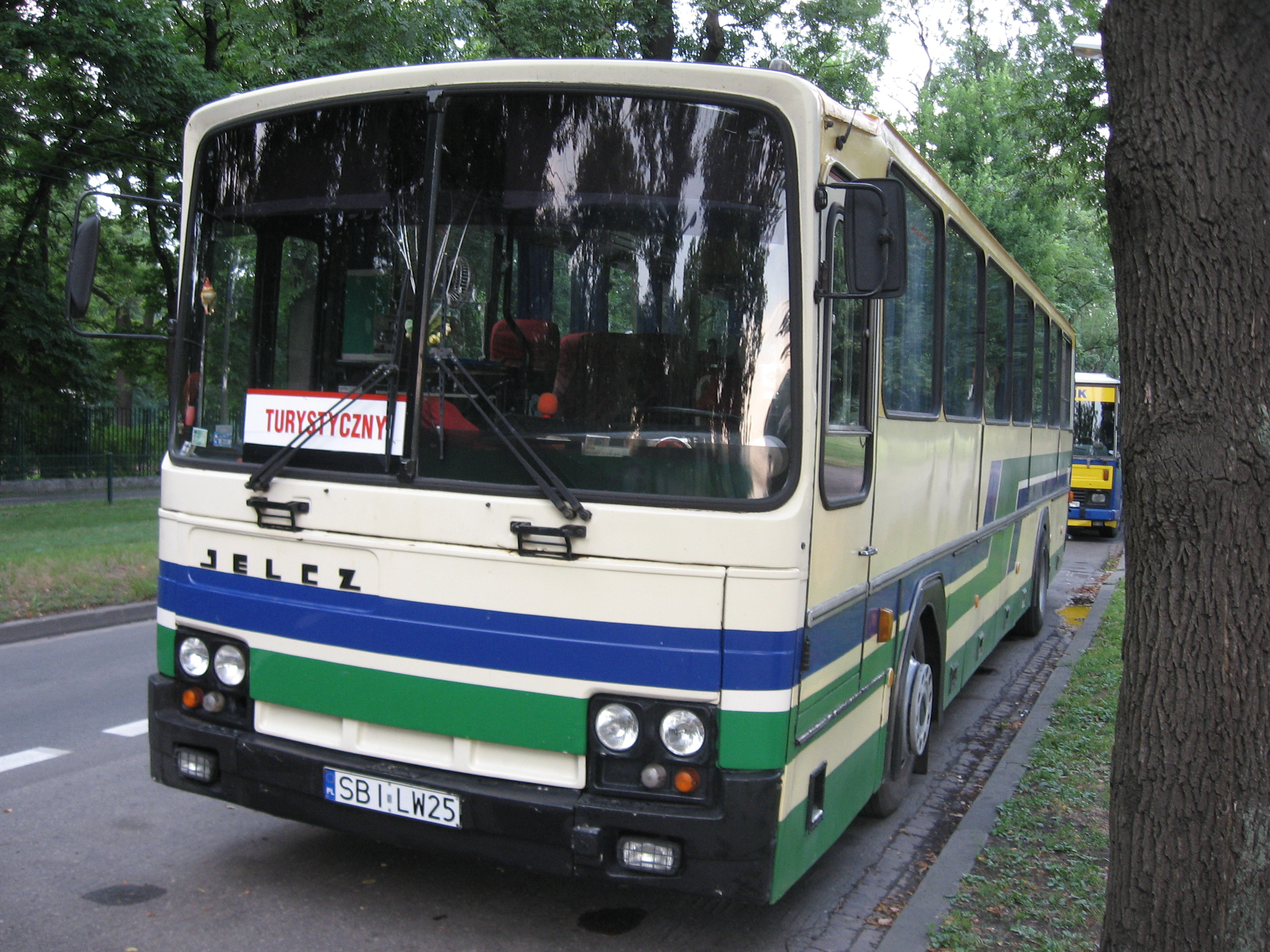 Jelcz PR110D Lux bus on 3 Maja avenue in Kraków, Poland. Built 1987, Gasiński Kozy operator.